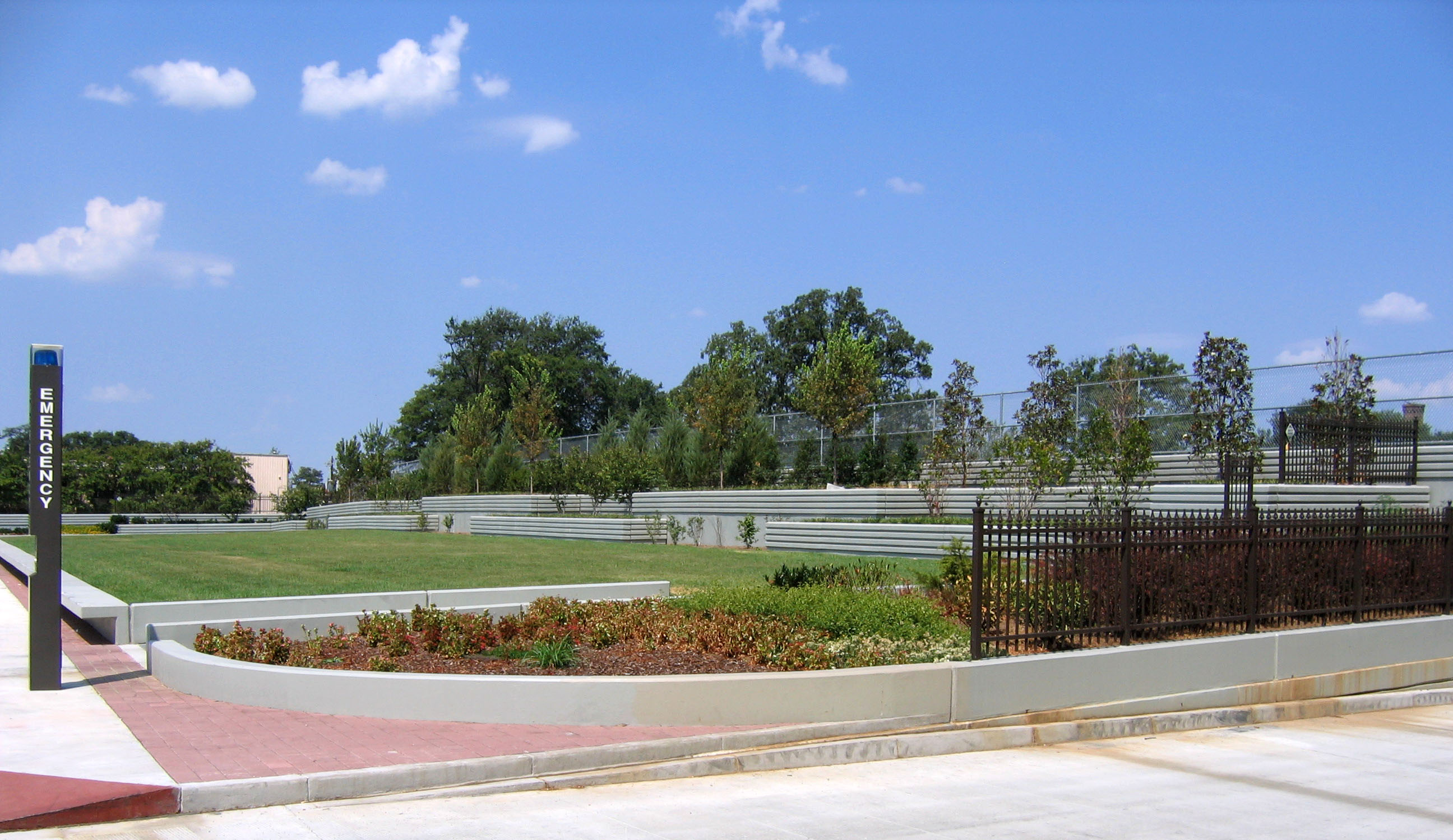 A picture of the north side of the 5th Street Bridge that connects Technology Square to the primary portion of Georgia Tech's campus.